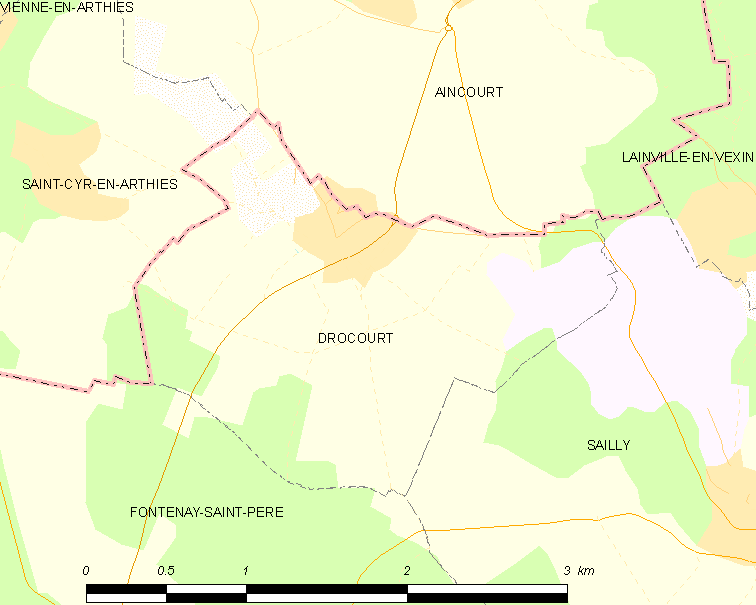 Map of French municipality Drocourt